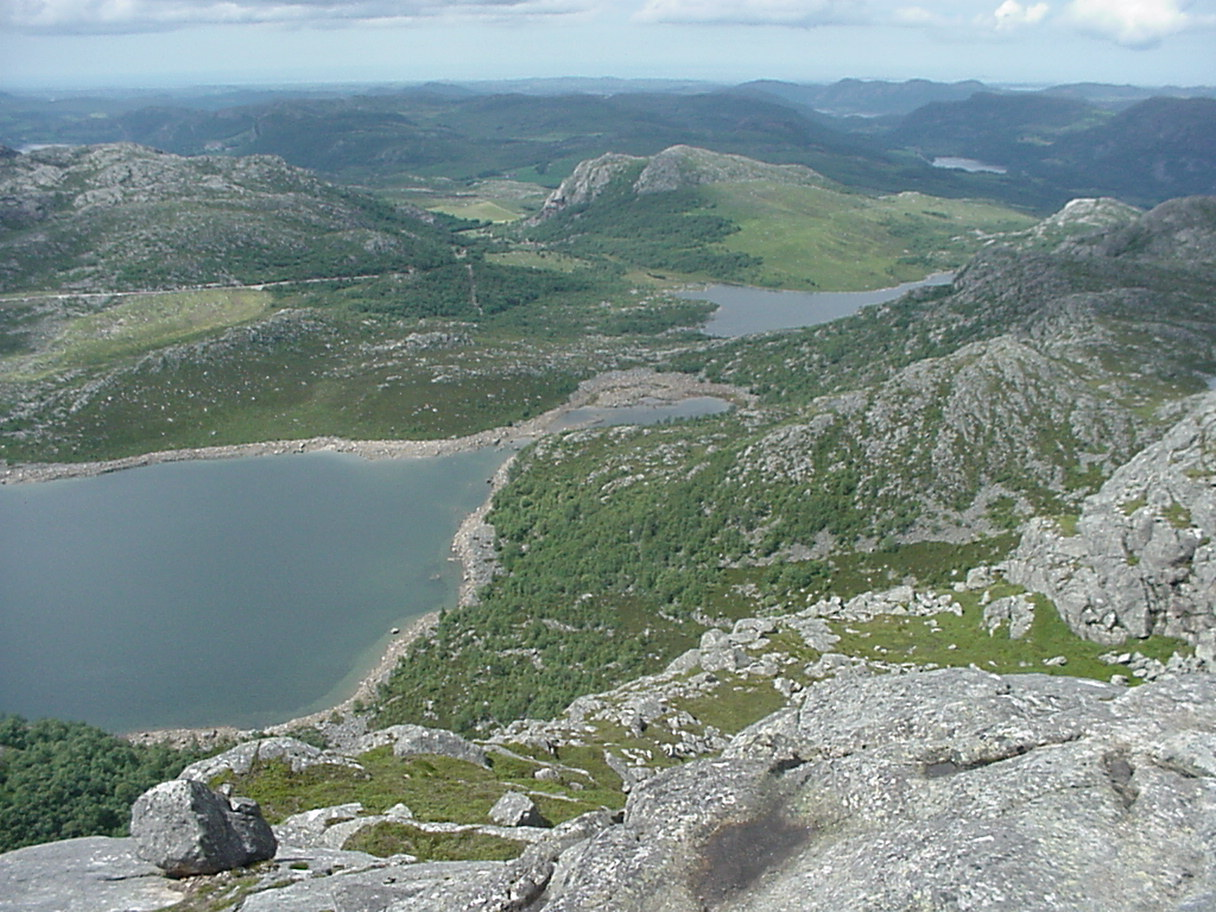 View from the top of Bynuten to lake Storatjørn (left)